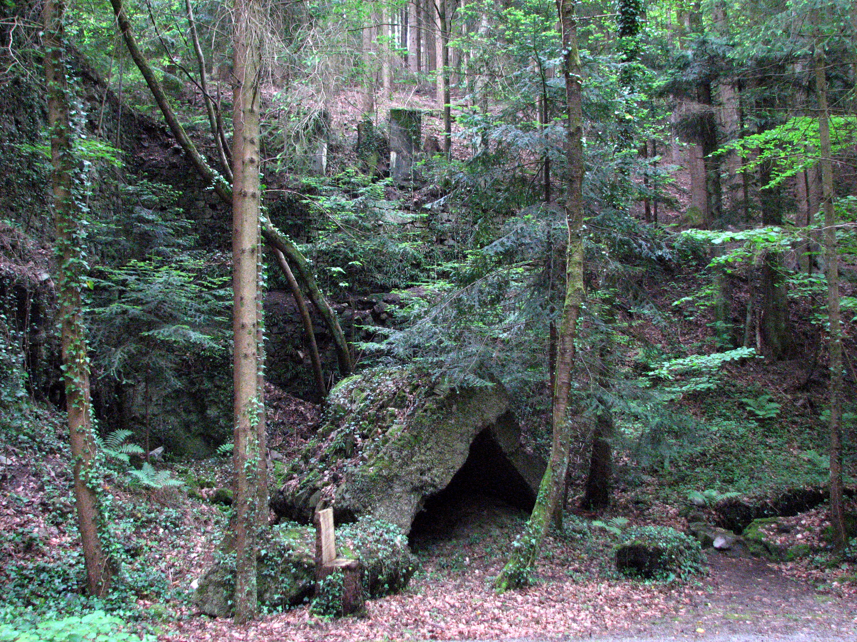 Blasted structures of Außenlagers „Vulkan“, condition today. Memorial place near Haslach in Kinzig valley.